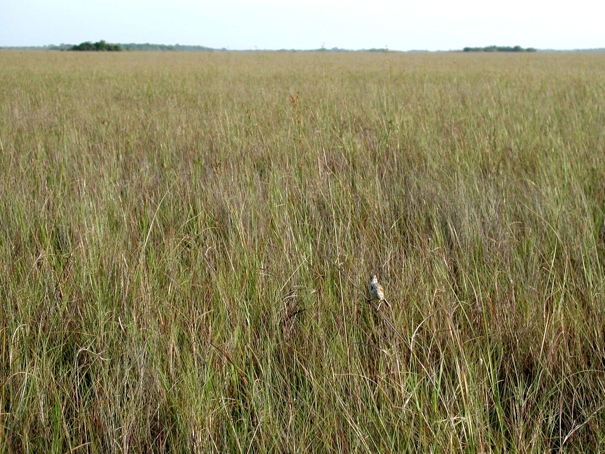 Location Everglades National Park Description Everglades National Park, largest subtropical wilderness in the United States, boasts rare and endangered species. It has been designated a World Heritage Site, International Biosphere Reserve, and Wetland of International Importance, significant to all people of the world.